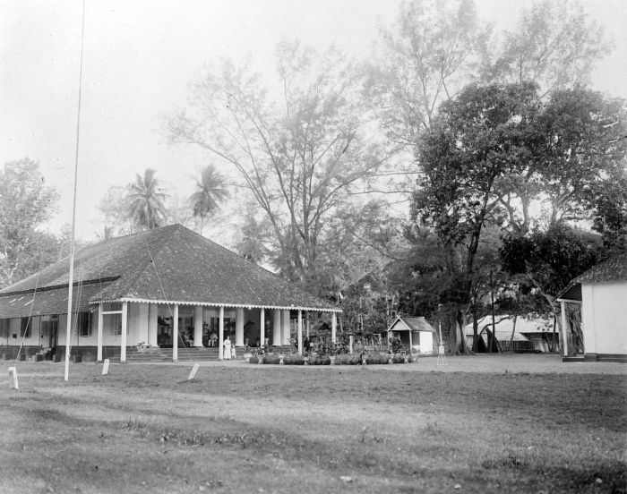 The house of the 'Controller'